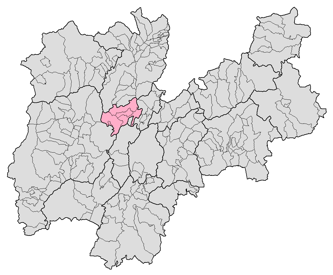 Location map of "Comunità della Paganella" (14)